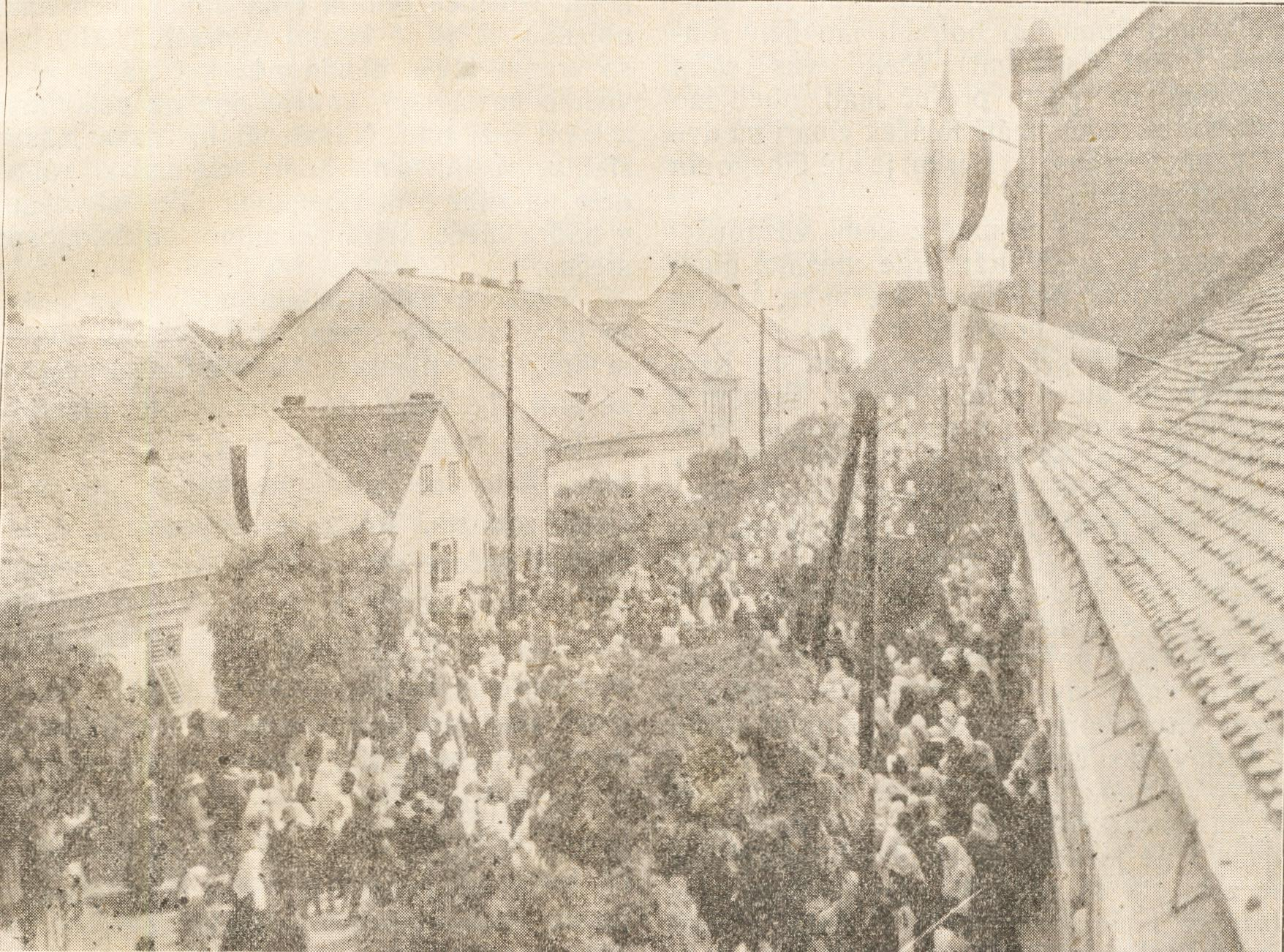 Celebration of the 10th anniversary of Prekmurje's accession to Slovenia (Yugoslavia) in Murska Sobota